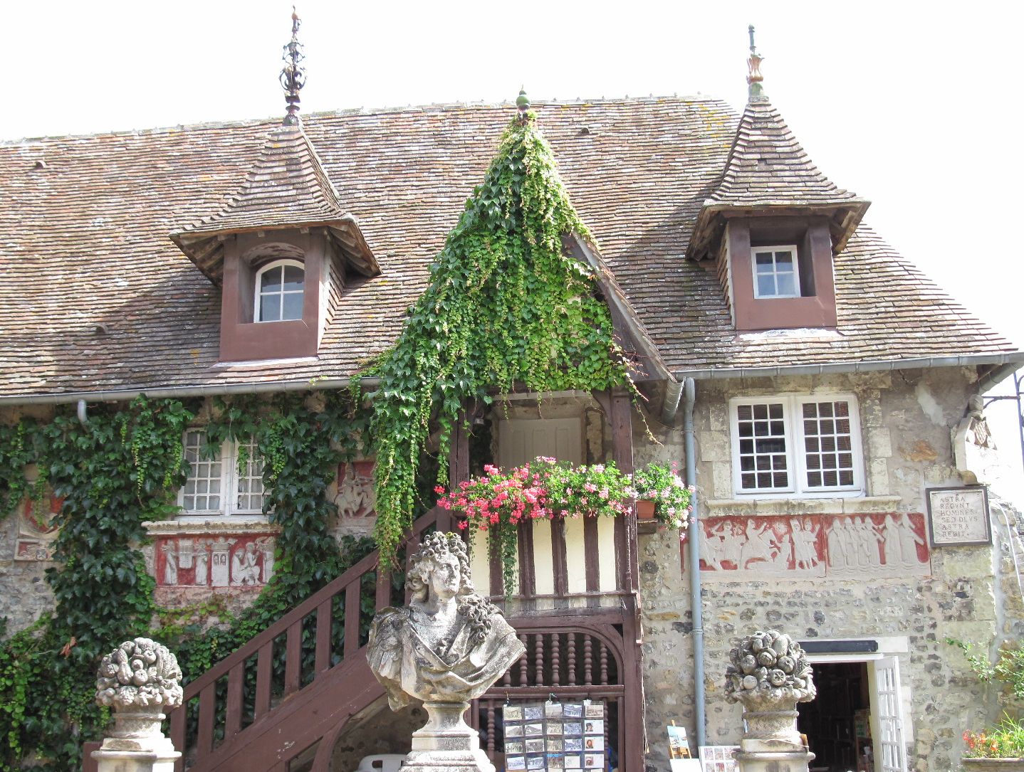 Dives-sur-mer